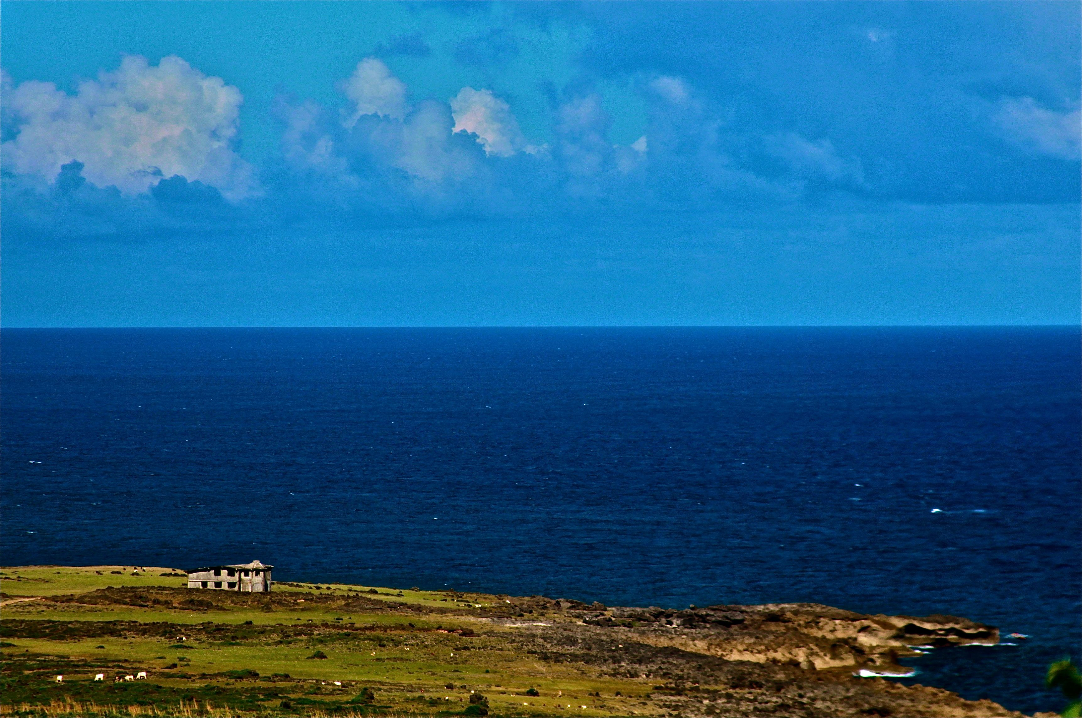 An old house sitting by the bay of Cape Bojeador, Burgos, Ilocos Norte, Philippines